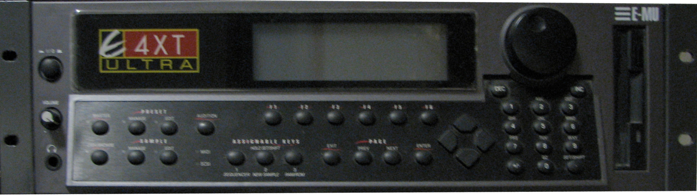 Front bezel of an E-MU E4XT Ultra.